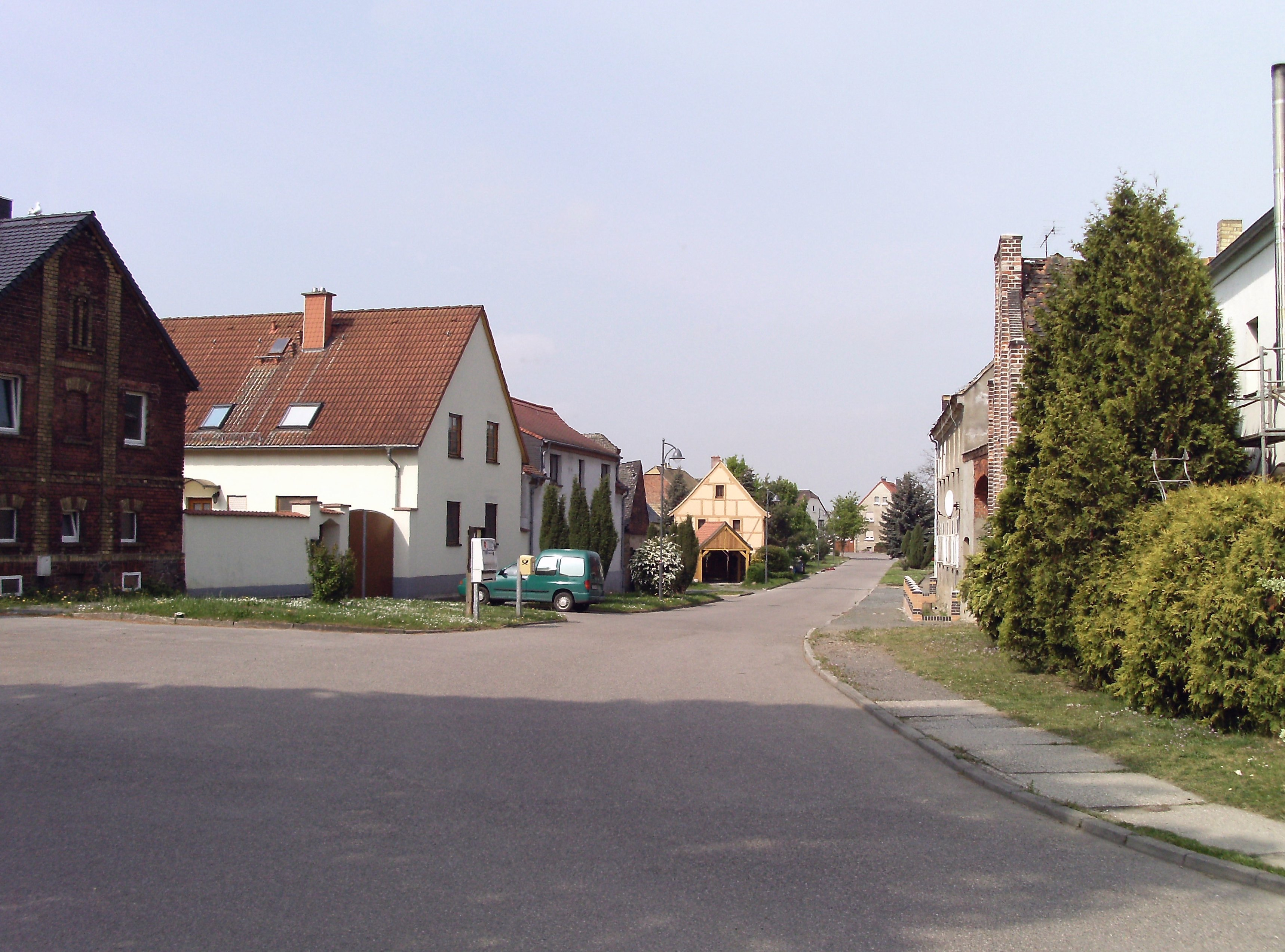 Im Rundling in Gallen (Jesewitz, Nordsachsen district, Saxony)